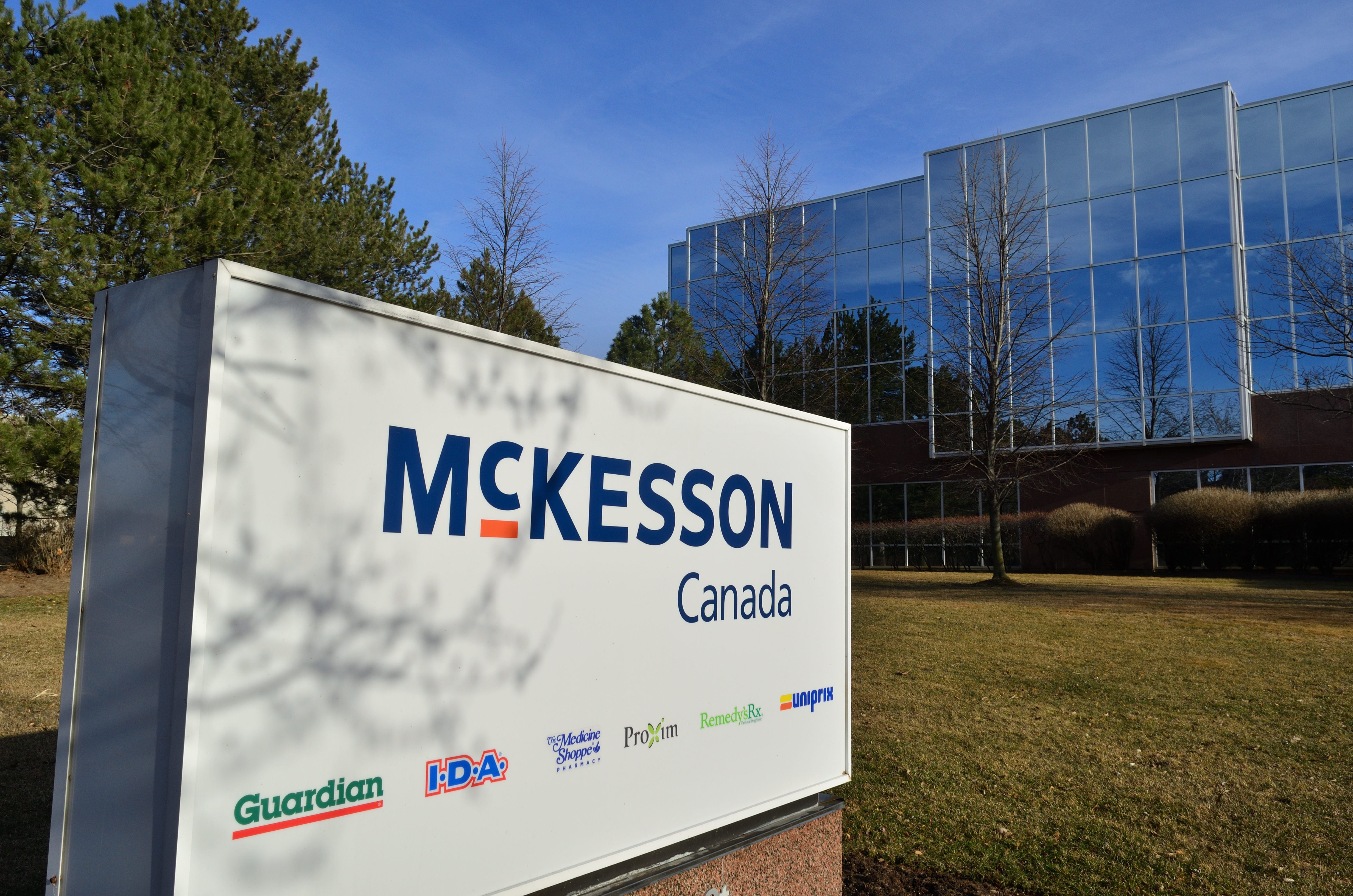 McKesson Canada - Address: 131 McNabb St, Markham, ON L3R 5V7